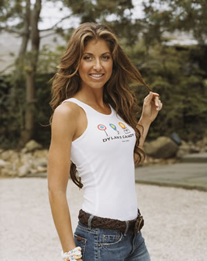 dylan tank top